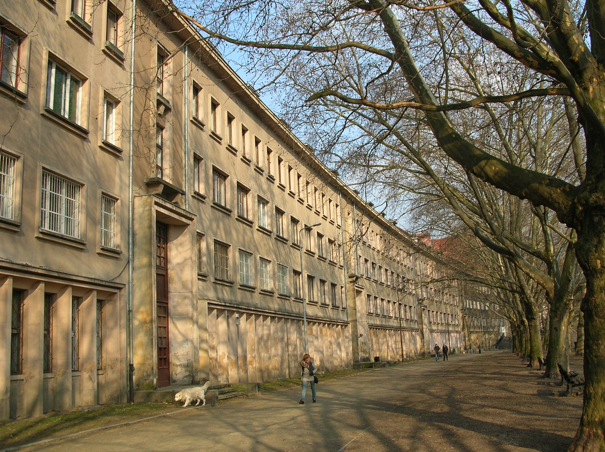 Buiding of the Institute of Geological Sciences (Cybulskiego Street), view from the Zwierzycki Boulevard